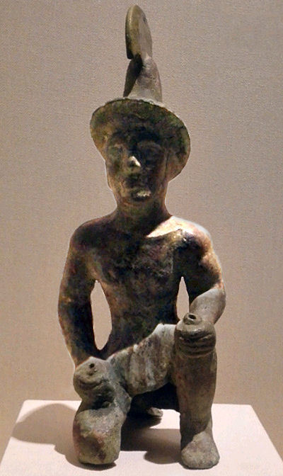 Bronze Warrior Statue without shade.4th-3rd century BCE. Bronze, 42cm high, 4 kilograms. Documented in "Cambridge Ancient History" IV. Also in Boardman "The diffusion of Classical Art in Antiquity", with photograph: "A bronze figurine of a kneeling warrior, not Greek work, but wearing a version of the Greek Phrygian helmet. From a burial, said to be of the 4th century BC, just north of the Tien Shan range". Urumqi, Xinjiang Region Museum Another photograph in "When West Went East", The Pennsylvania Gazette, p.8 Also a drawing from another angle.